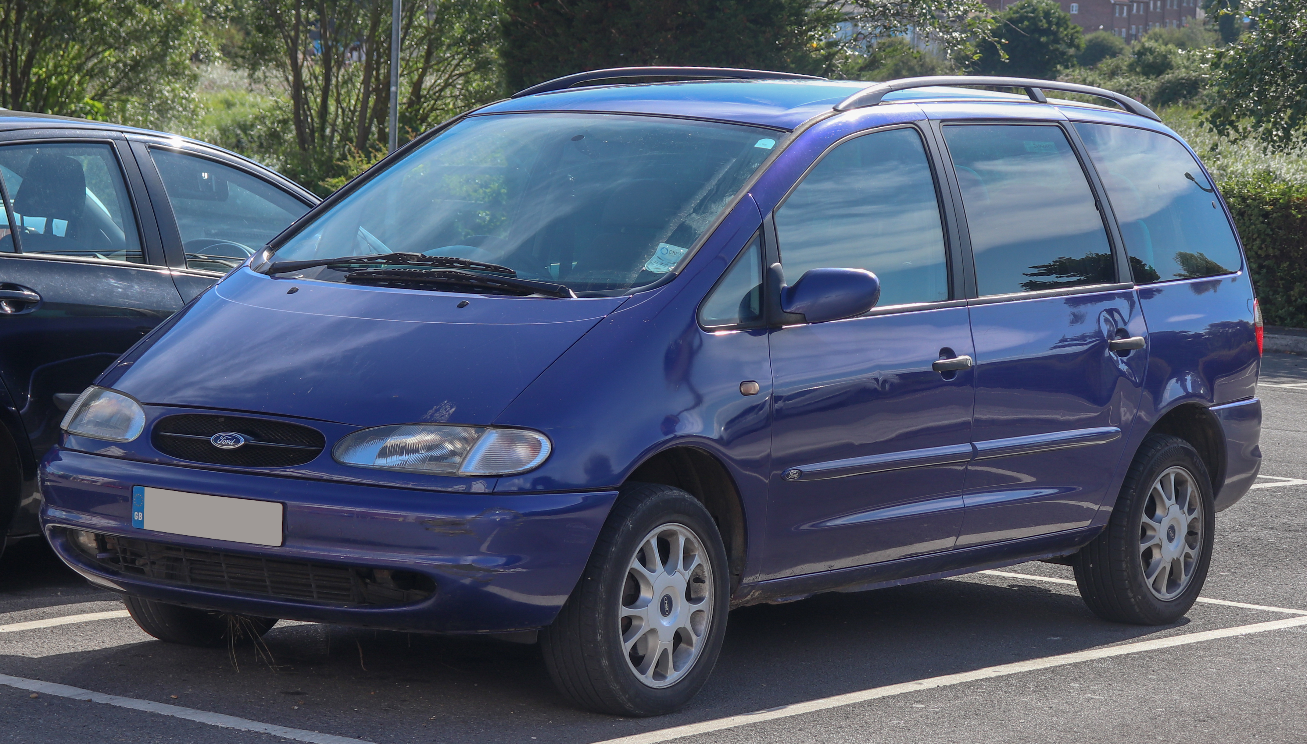 2000 Ford Galaxy Zetec TD 1.9 Front Taken in Weymouth, Dorset